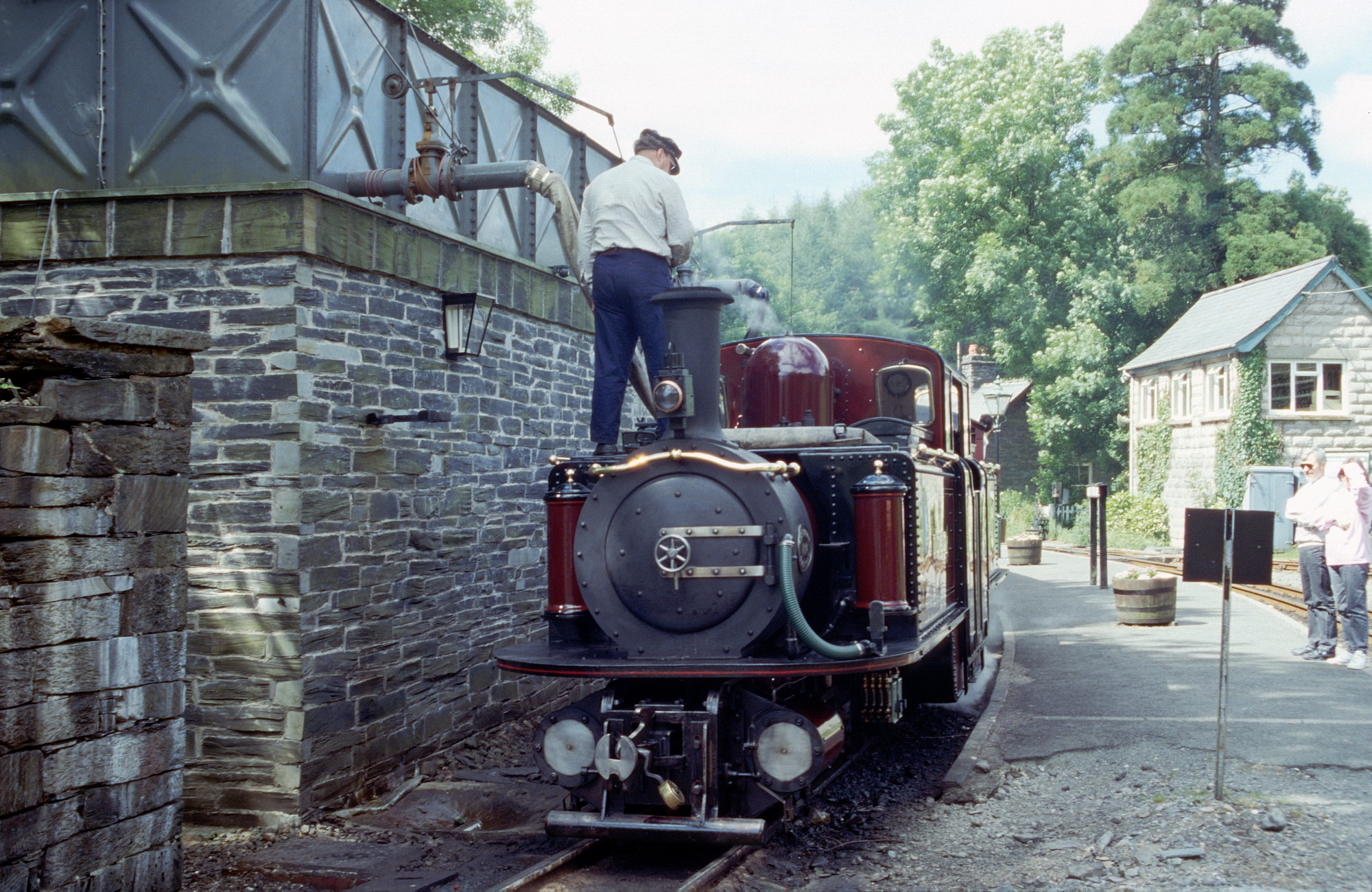 Ffestiniog Railway, double Fairlie "Merddin Emrys" taking water at Tan-y-Bwlch station de: Ffestiniog Railway, Double Fairlie "Merddin Emrys" nimmt Wasser im Bahnhof Tan-y-Bwlch.